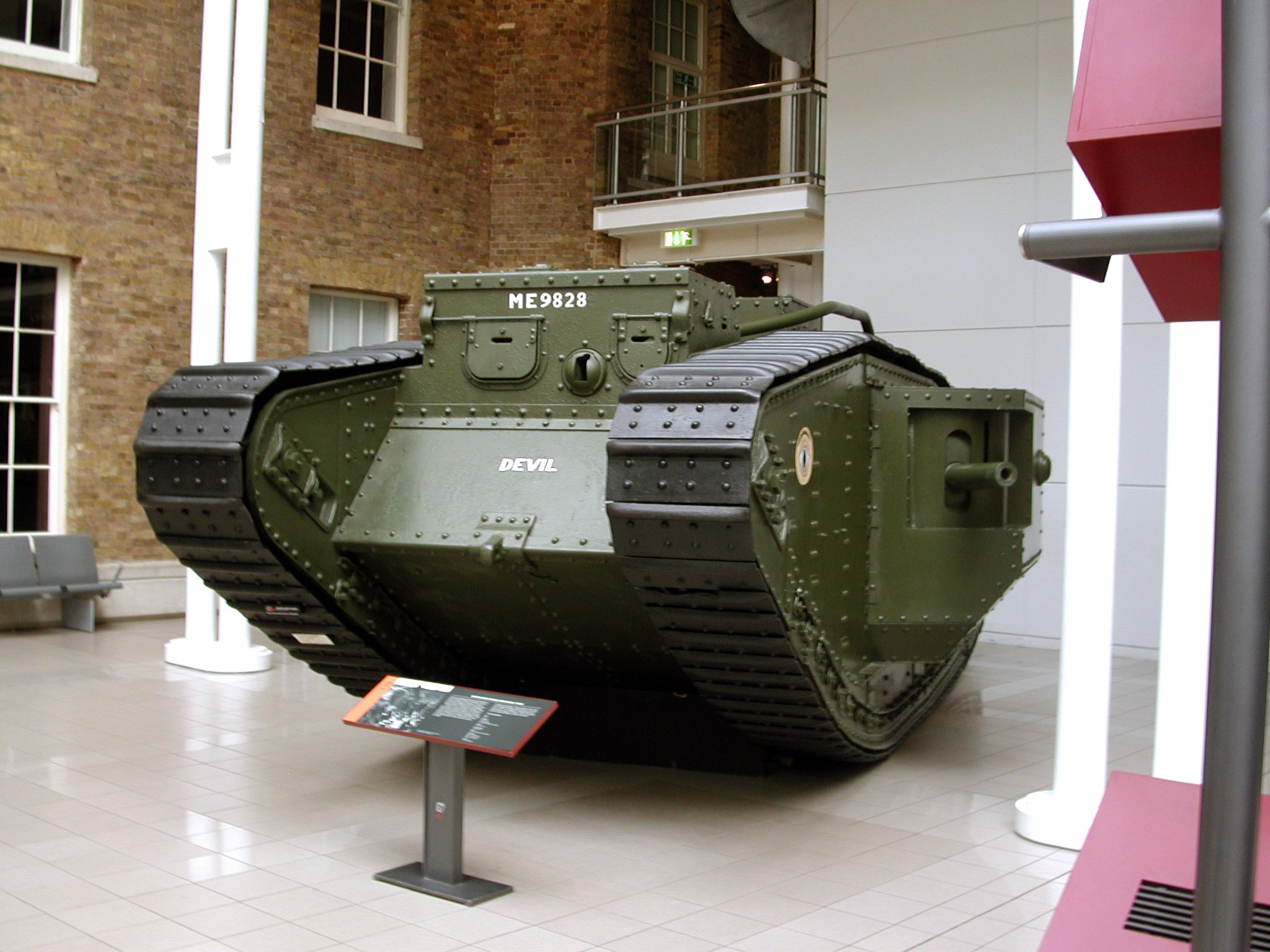 Mark V Male Tank (heavily restored) "Devil" in Imperial War Museum, London